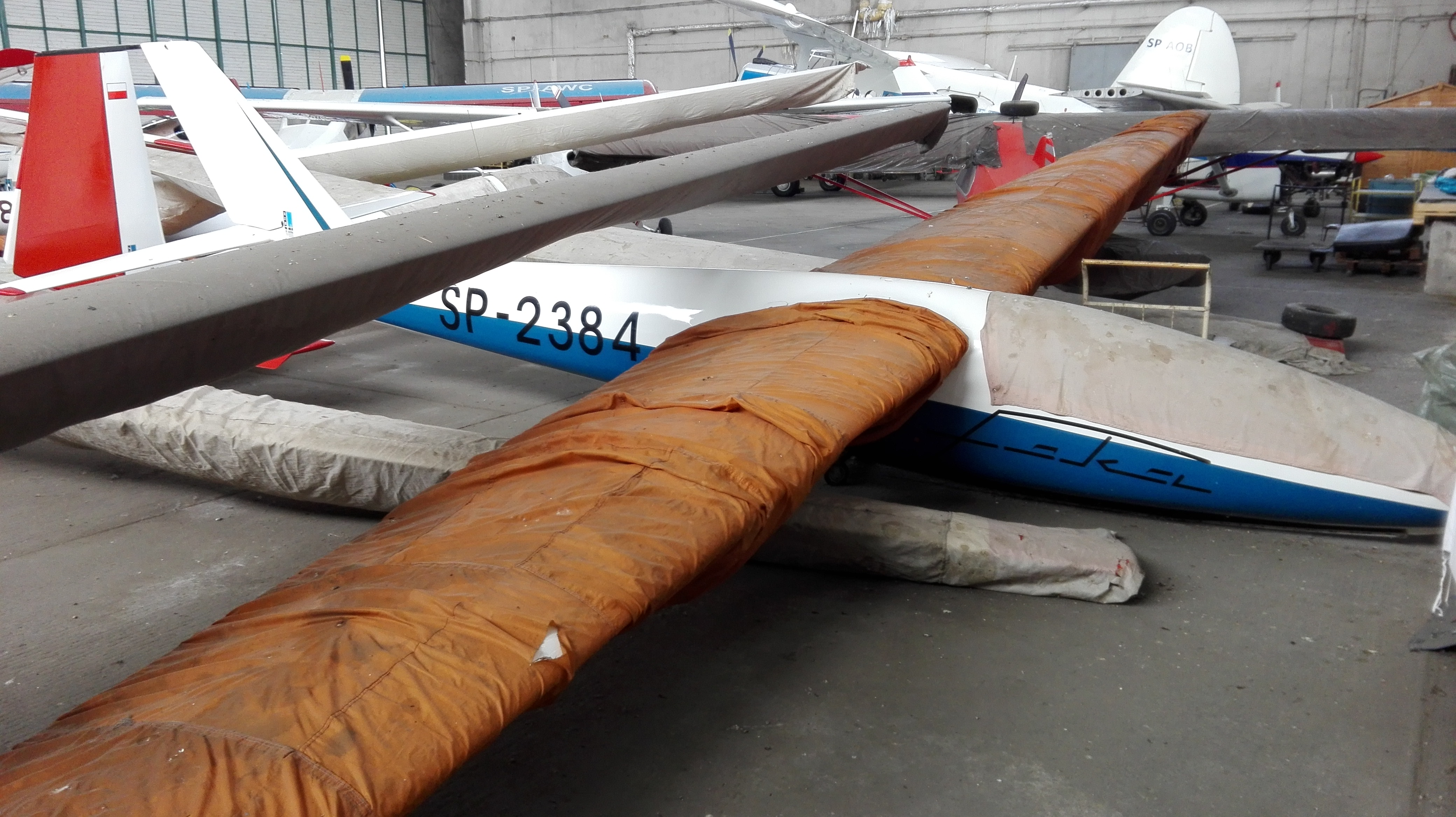 SZD-24 Foka C